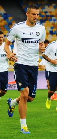 Zdravko Kuzmanović